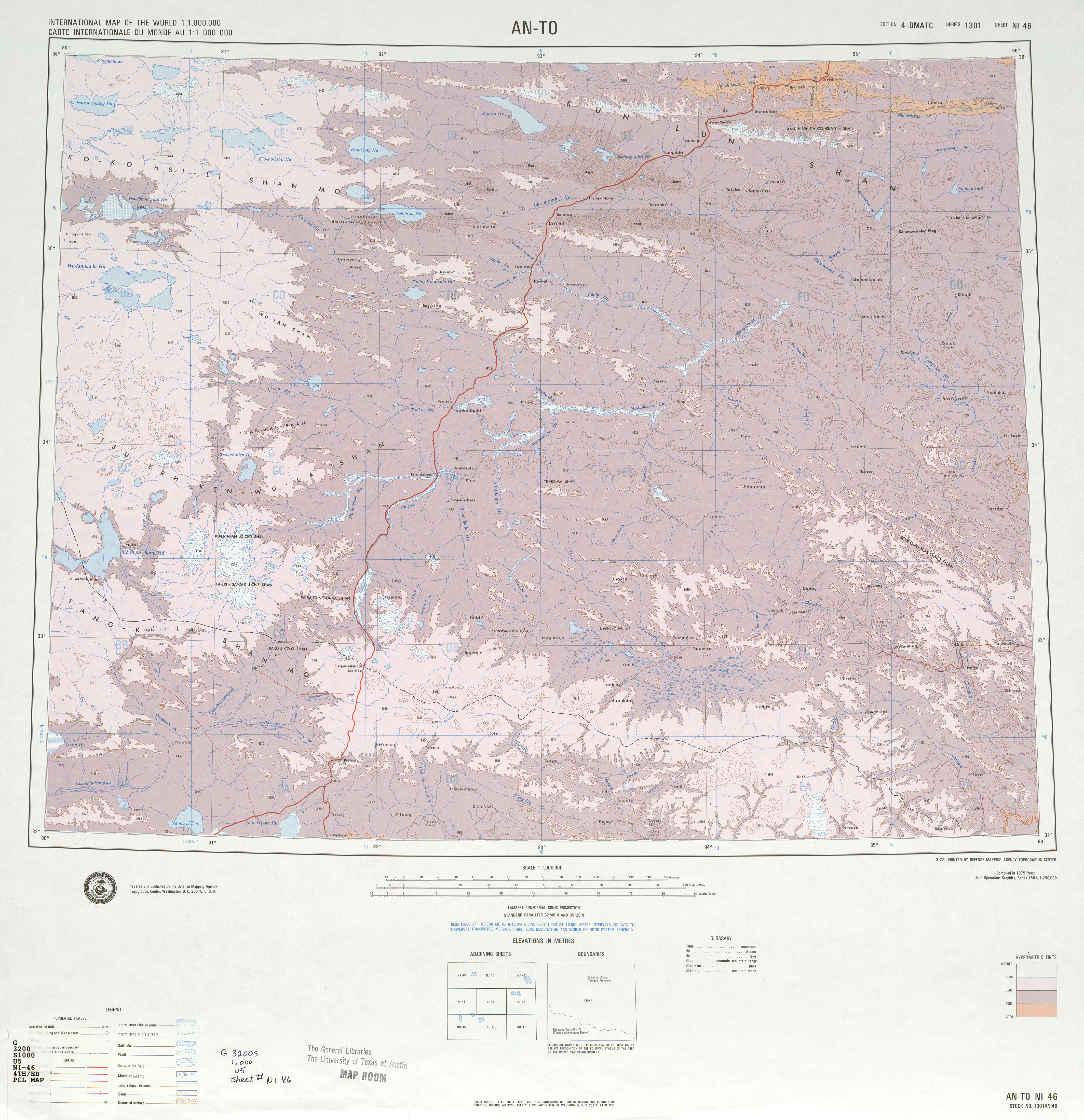 Map from the International Map of the World 1:1,000,000